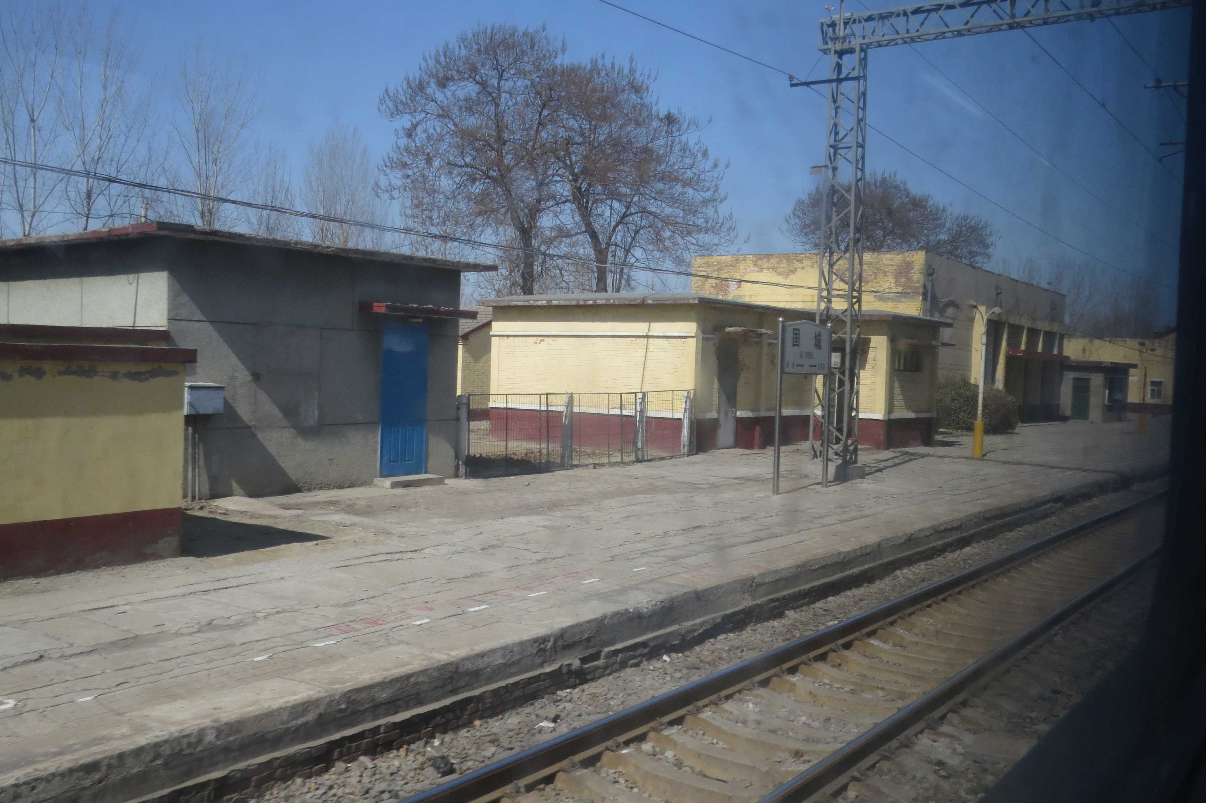 Taken from T168 after departing from Xushui.